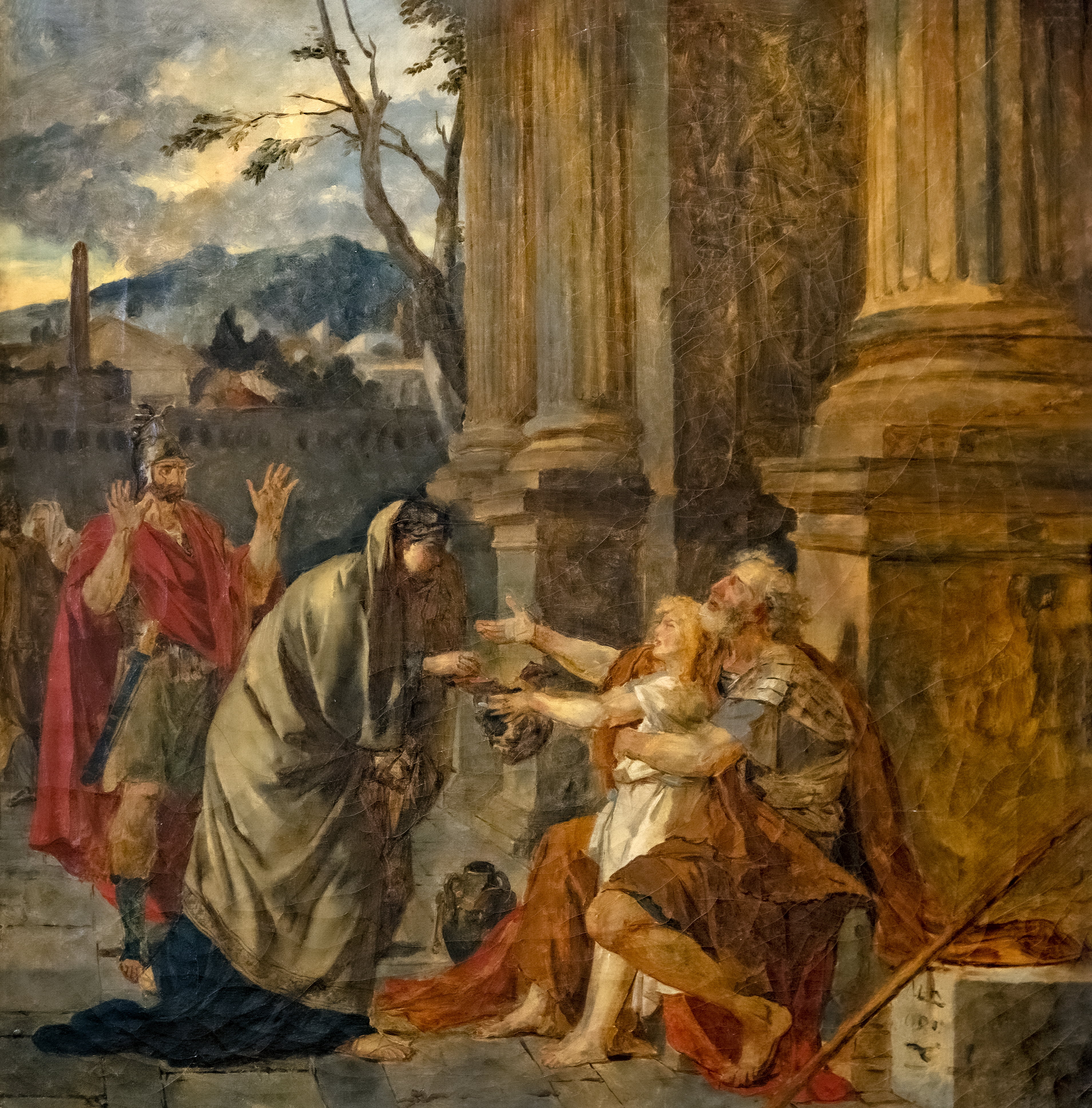 Depicted person: Belisarius – 6th century Byzantine general instrumental in reconquest of much of the former Roman Mediterranean territories